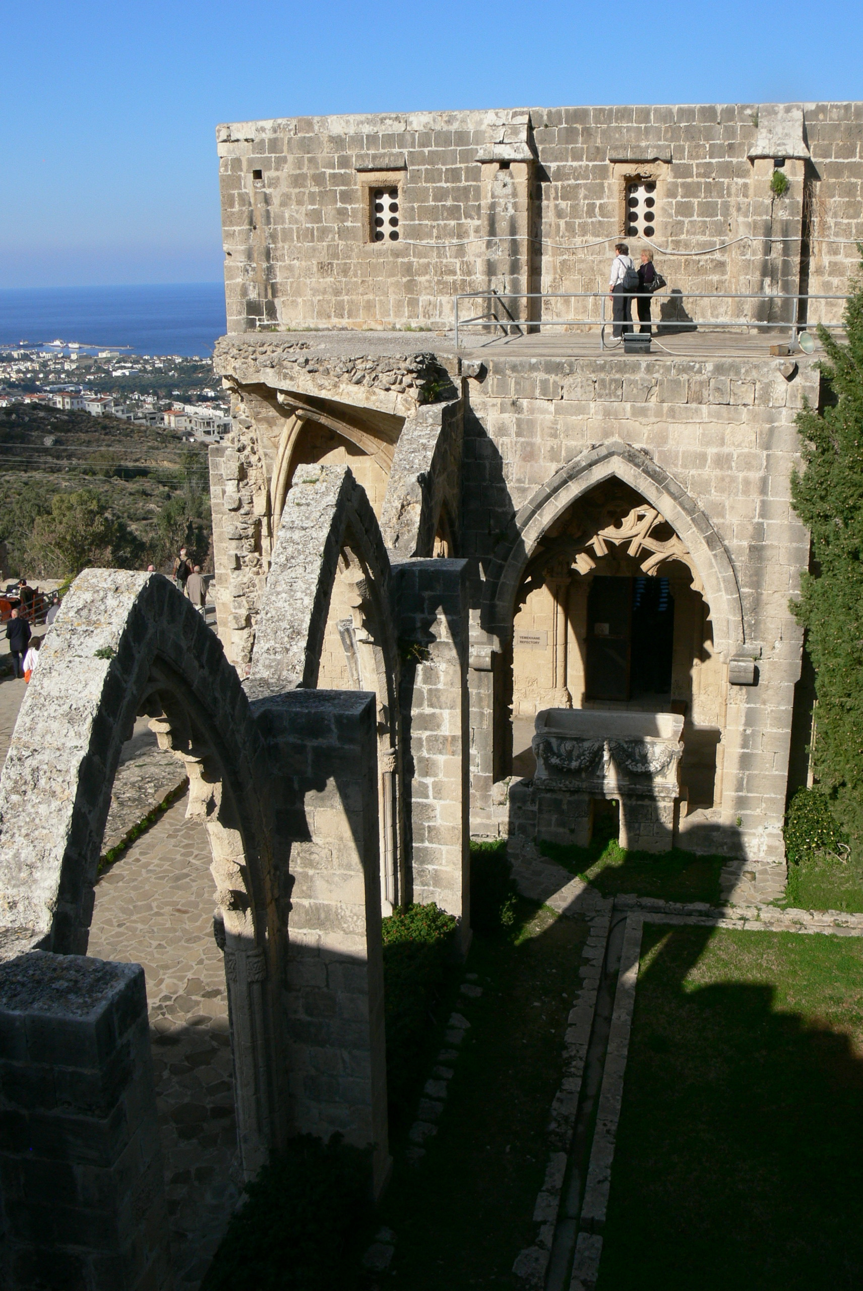 Bellapais monastery ( Northern Cyprus ). Cloisters ( 14th century ), seen from the upper gallery.